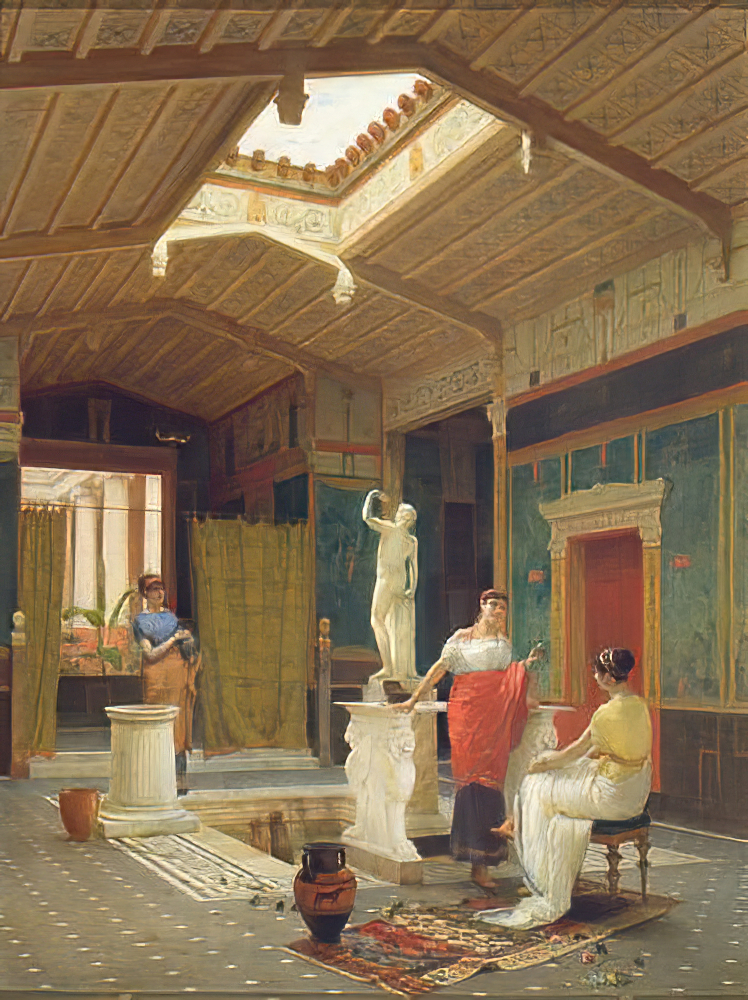 A Pompeian Interior by Luigi Bazzani, 1882